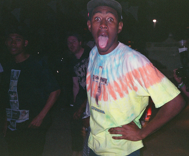 Tyler, the Creator, US-American Rapper and Producer